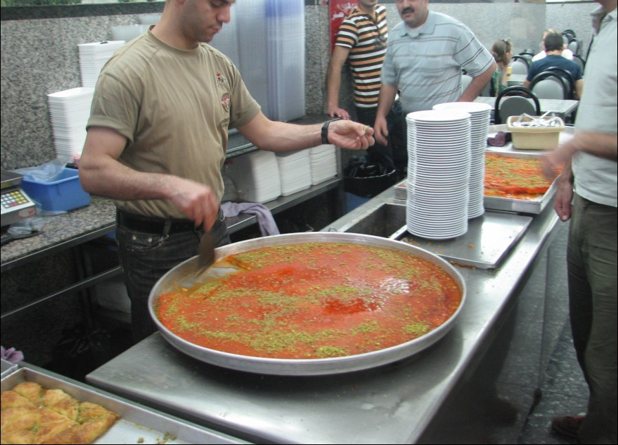 Kanafeh shop, East JLM, Palestine.